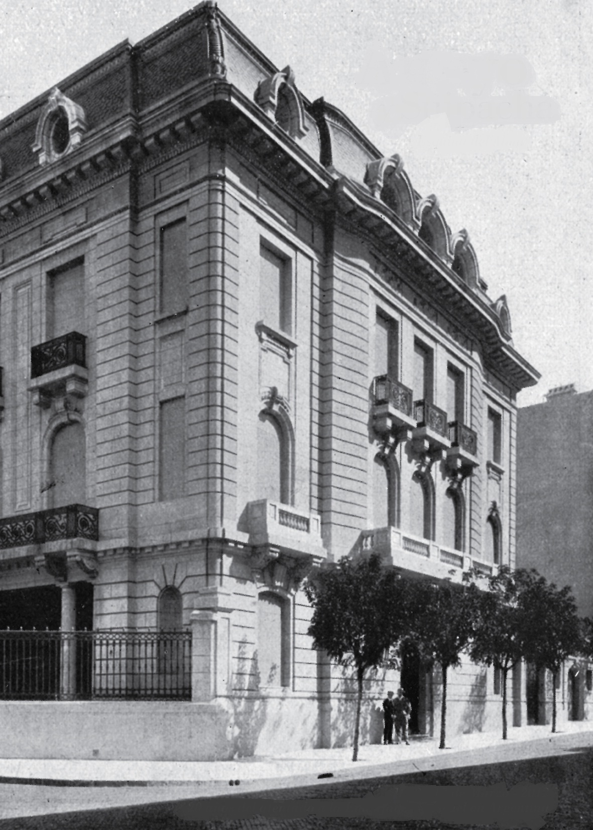 The Enrique Lastra Residence, on Arroyo 910, Retiro, Buenos Aires (Argentina). Designed by Alejandro Virasoro and completed in 1925, it was sold to the State of Israel in 1949 and formally inaugurated as its Embassy in Argentina on April 23, 1950. The building was destroyed by a bomb on March 17, 1992.